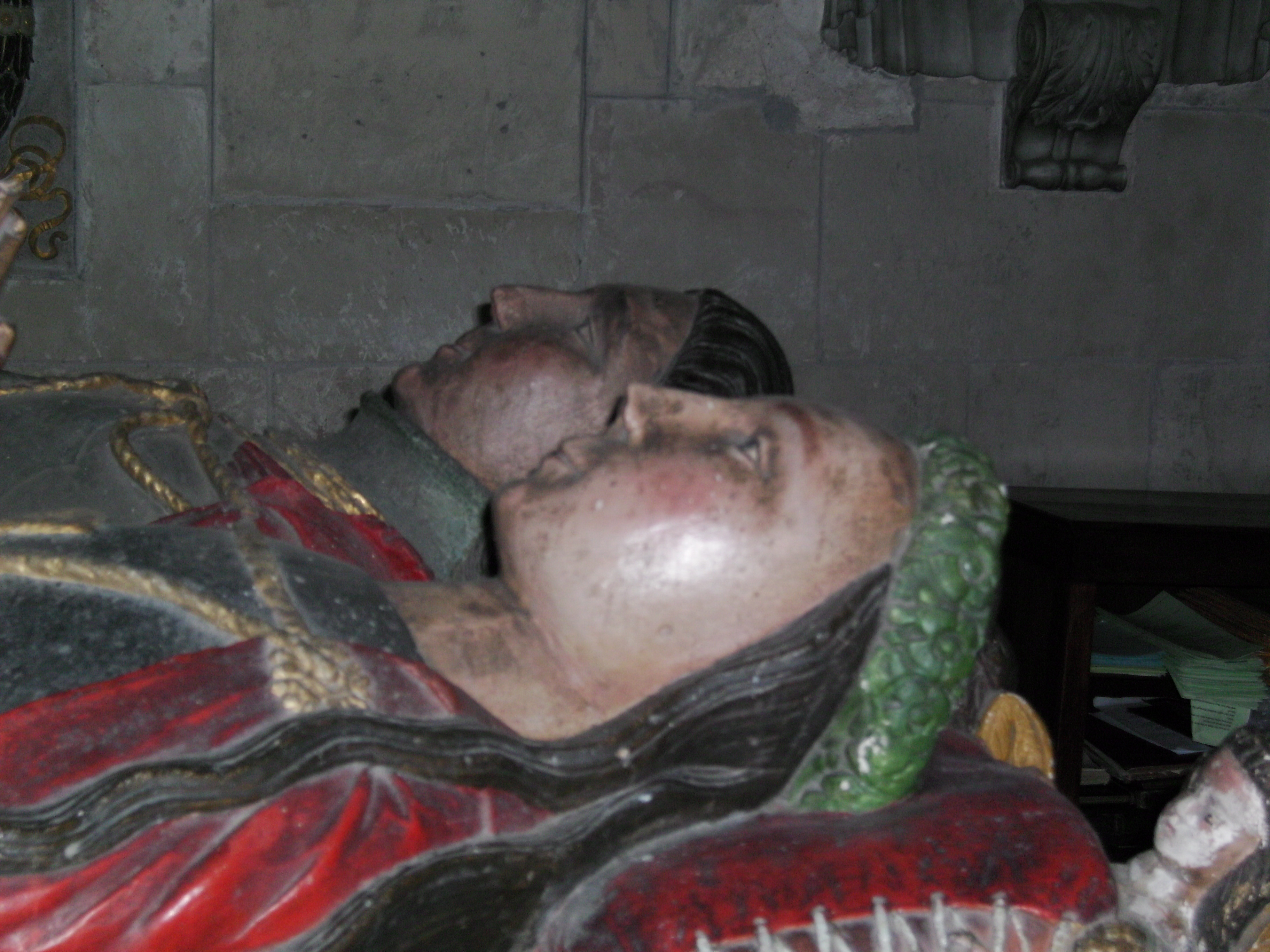 Church of St Bartholomew, Moreton Corbet, Shropshire. Tomb of Robert Corbet (died 1513) and his wife, Elizabeth Vernon. Effigy of Elizabeth Vernon, who long outlived her husband, dying in 1563.